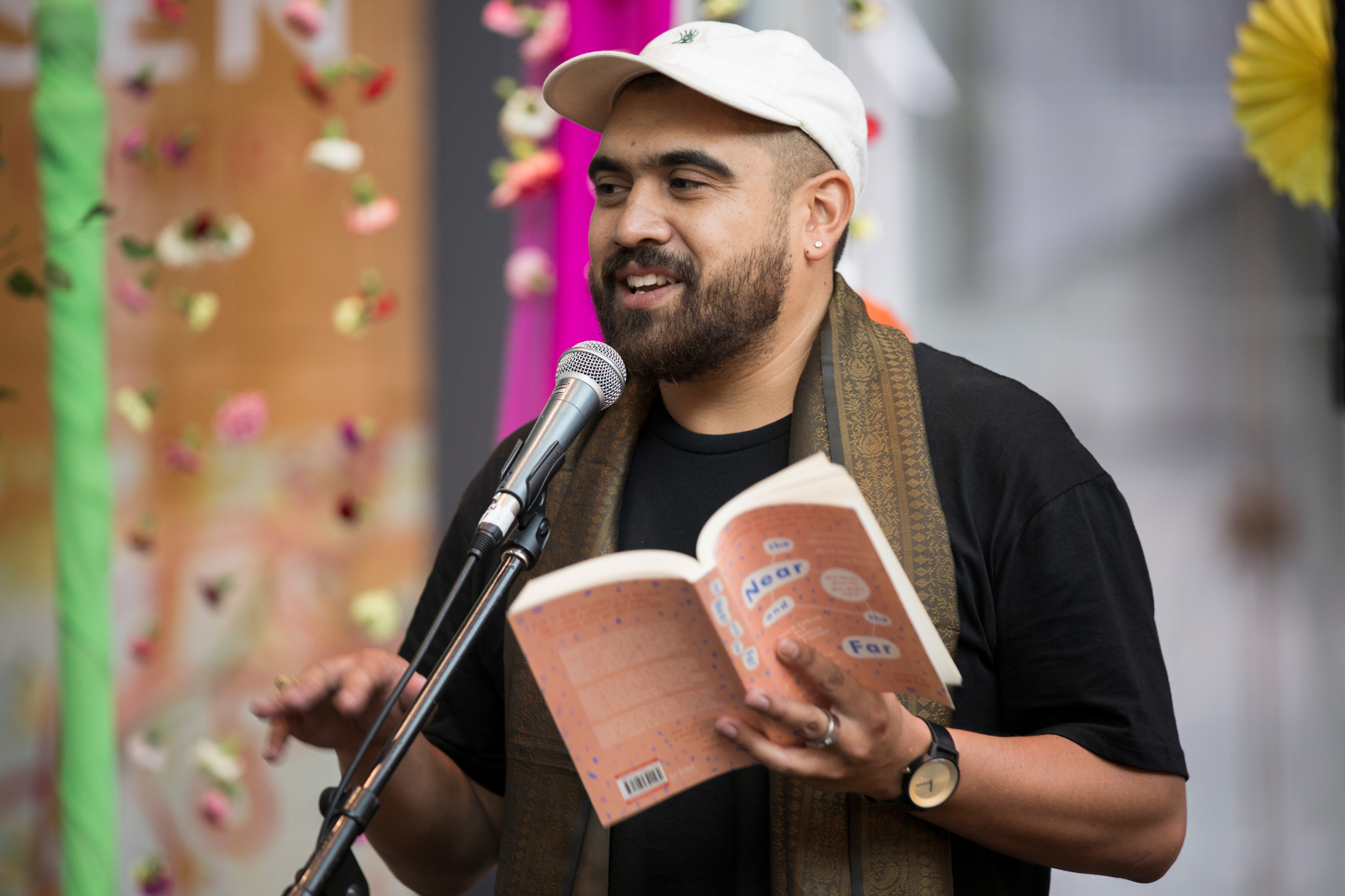 Omar Musa reads to an Audience at the Jaipur Literature Festival event at Federation Square in Melbourne as part of the broader Asia TOPA festival.